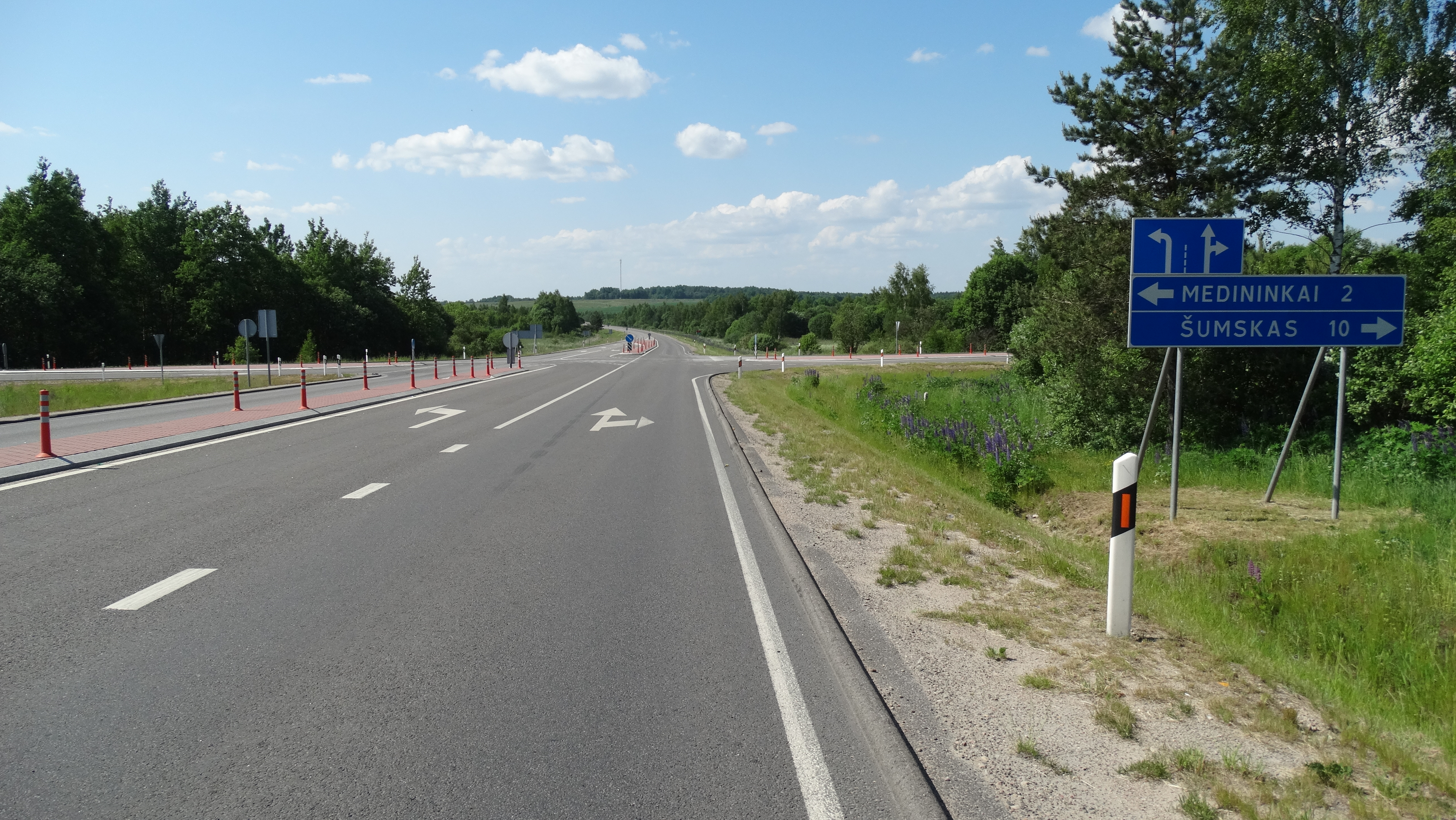 Highway A3, Vilnius District, Lithuania